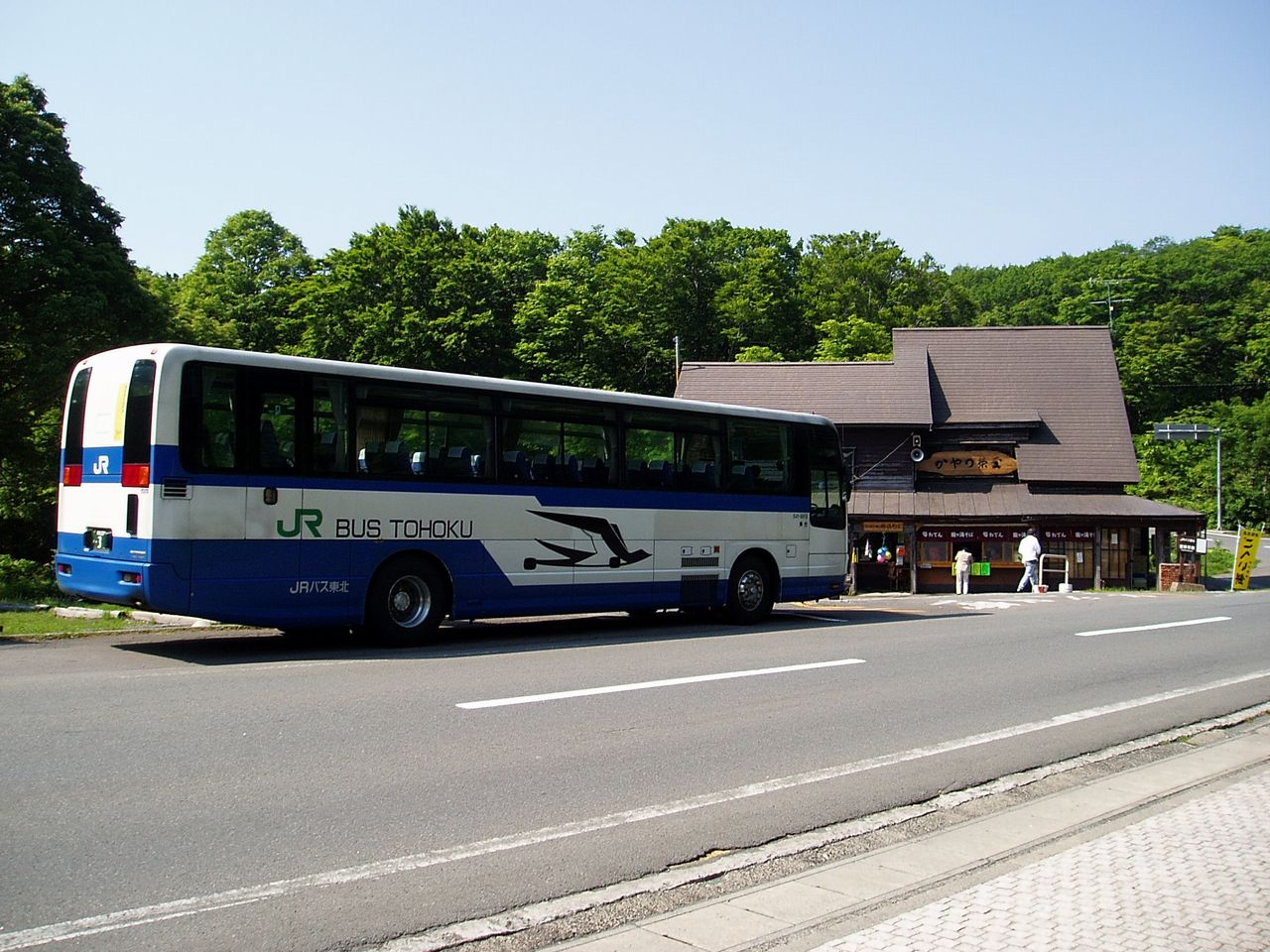 JR Bus Tohoku 641-9913 "Towada-hoku Line" Isuzu KC-LV782R1 at Kaya no Chaya in Aomiri City